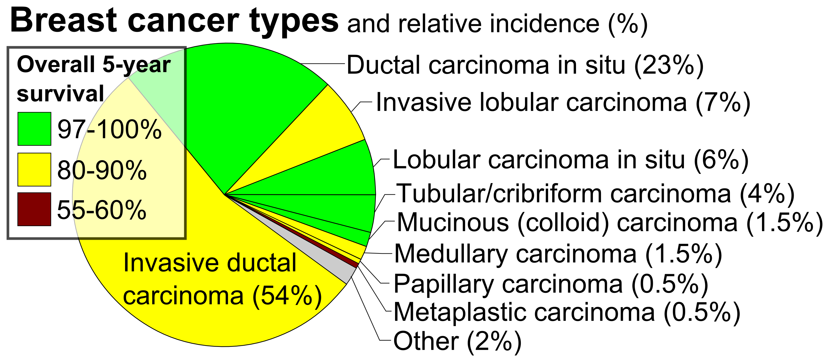 Pie chart of incidence and prognosis of histopathologic breast cancer types, assuming that the population is fairly well screened. In situ-types can constitute as little as 5% of incidence in lack of screening. Page 1084 in: Robbins, Stanley (2010) Robbins and Cotran pathologic basis of disease, Saunders/Elsevier ISBN: 978-1-4377-2182-9. OCLC: 489074868. Further reading: Classification of breast cancer